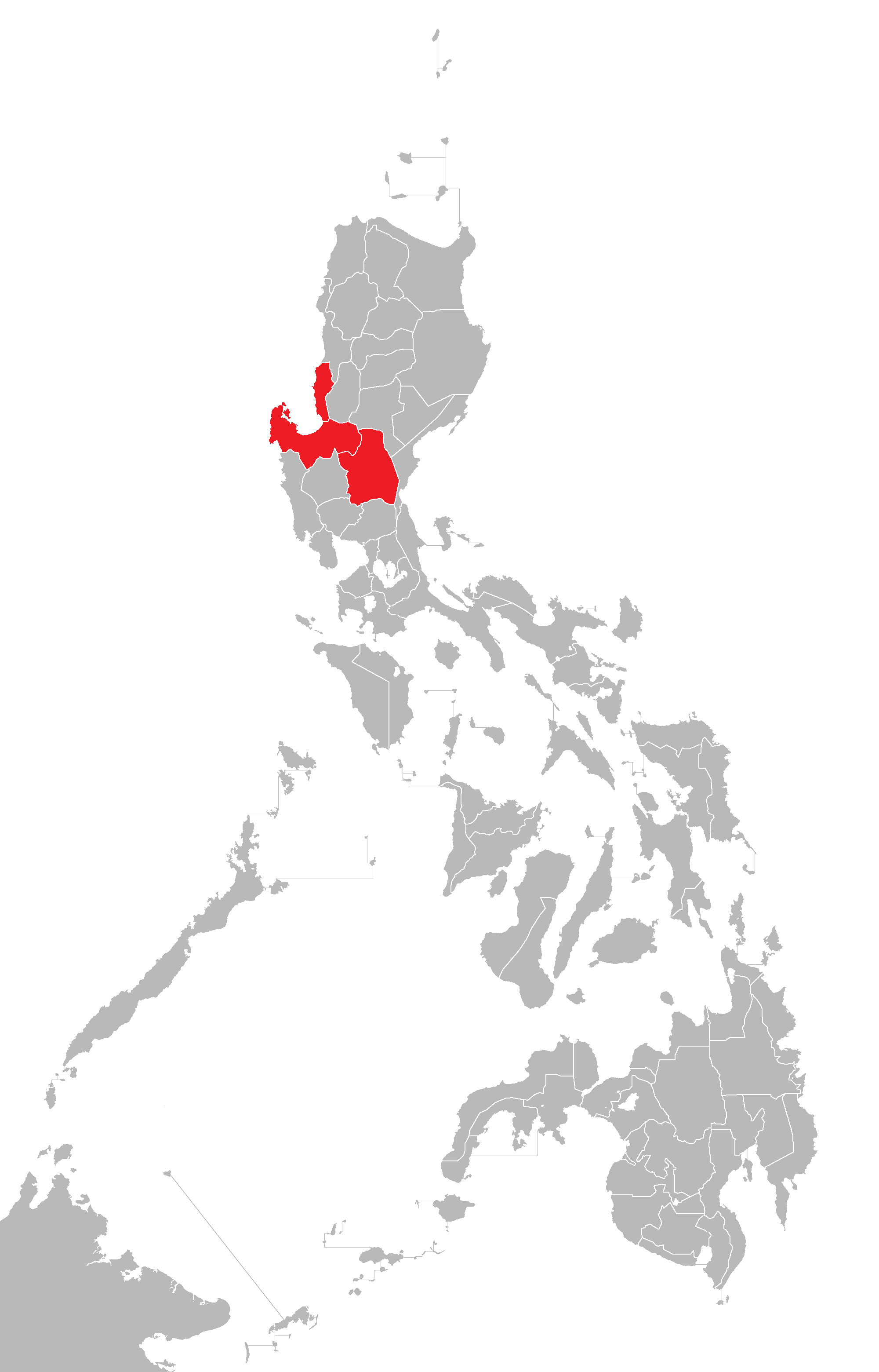 Jurisdiction of the metropolitan see of the Roman Catholic archdiocese of Cagayan de Oro.